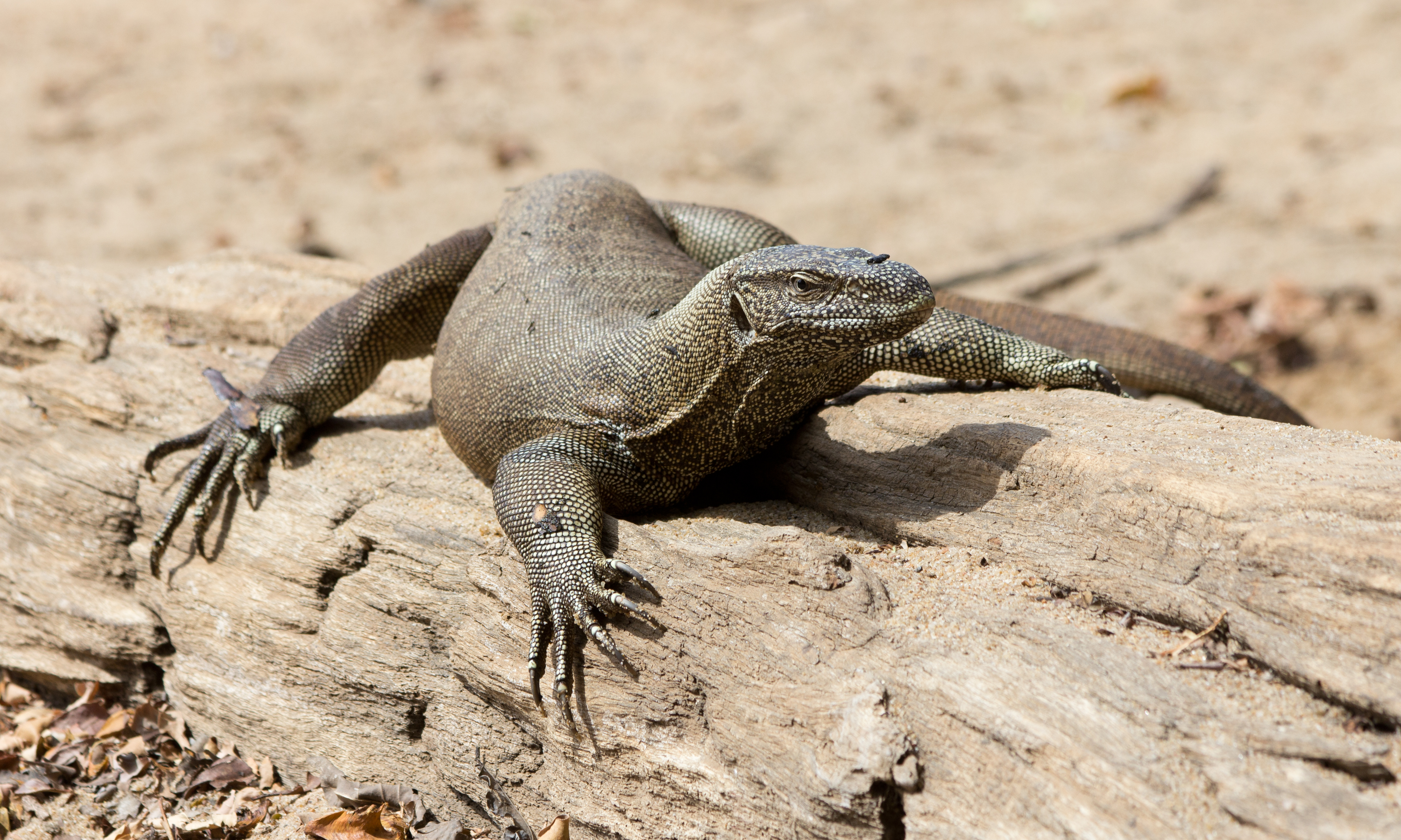 Wild Bengal monitor (Varanus bengalensis) in Yala National Park, Sri Lanka.